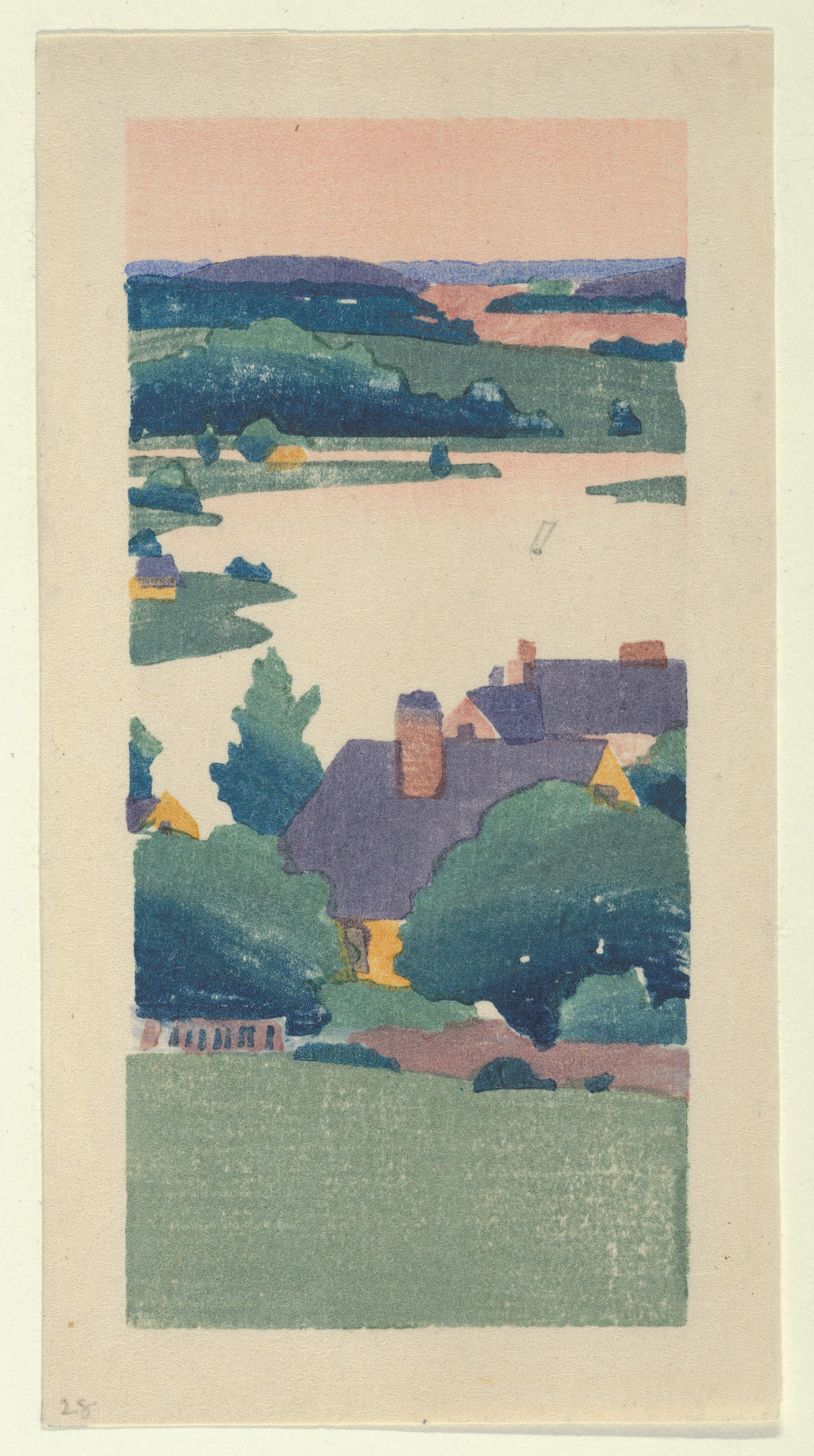 Print; Prints